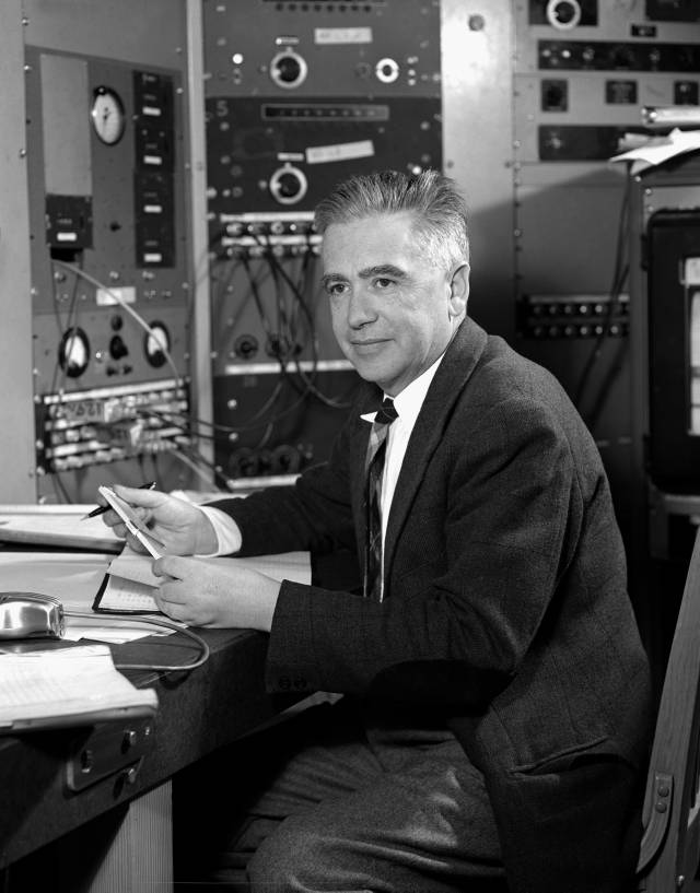 Emilio Segrè